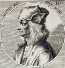 Engraving of Quentin Massys by Joachim von Sandrart